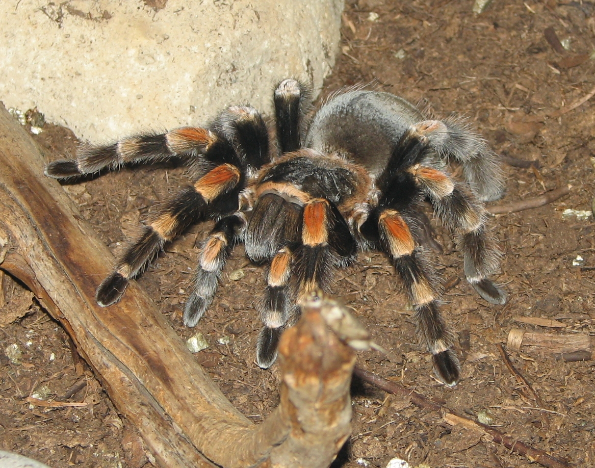 Tarantula - (Brachypelma smithi)